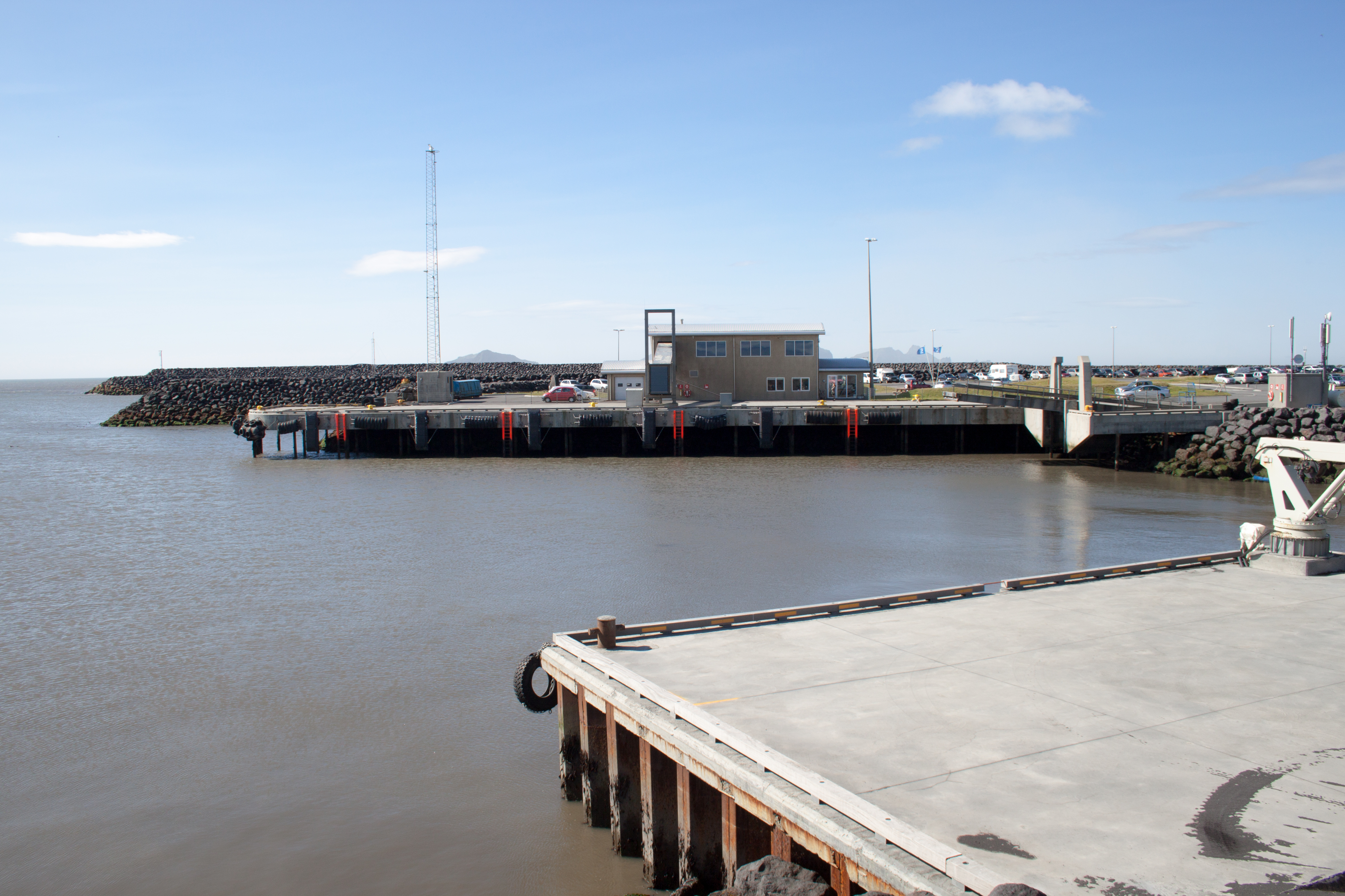 Landeyjahöfn